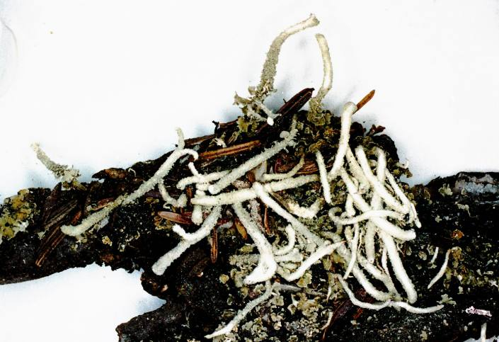 Cladonia bacillaris (Genth) Schaerer Photograph of a herbarium specimen. (Spot test reactions on podetia: PD-, K-) These specimens were growing on bark along Trail 517 about 3 miles from Forest Service Road 19 at the Dolly Sods Wilderness Area of the Monongahela National Forest, Randolph County, West Virginia, USA. Collected and determined by E.C. Uebel (No. U-26, 19 May 2001).